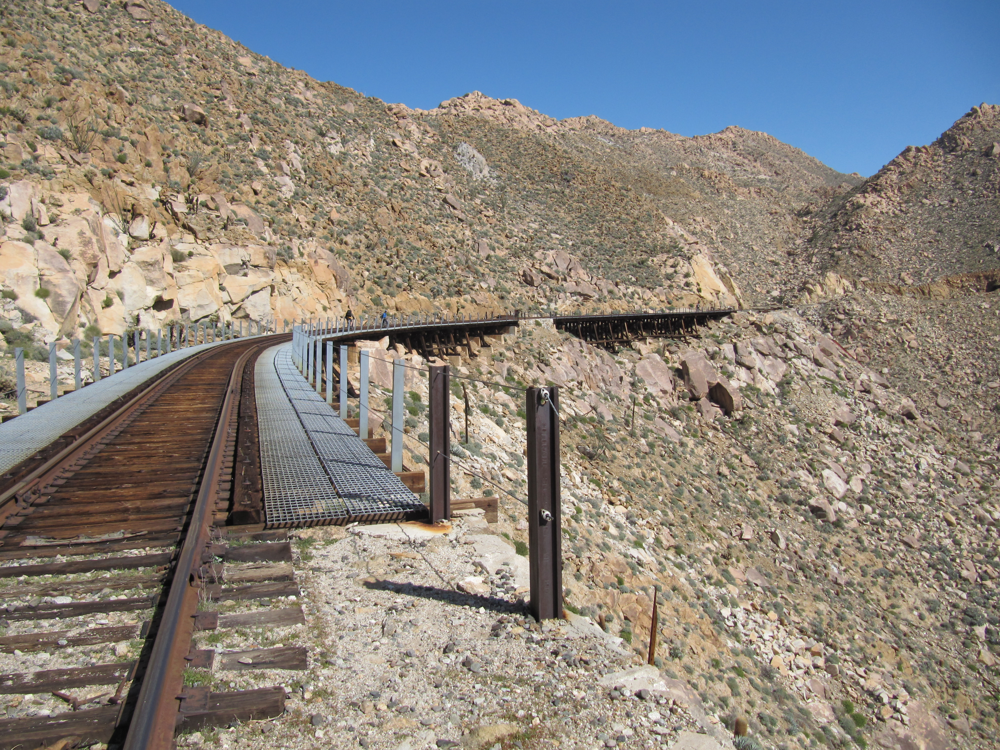 A view of Carrizo Gorge Railroad Trestle - Photograph by Patty Mooney of San Diego, Califorhia